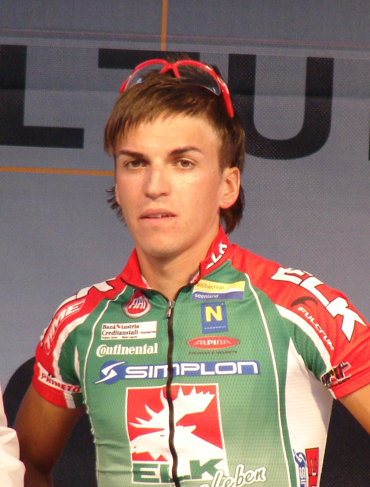 Austrian bicycle racer Thomas Rohregger during the "Nightrace .07" in Waidhofen an der Ybbs on August 24, 2007.